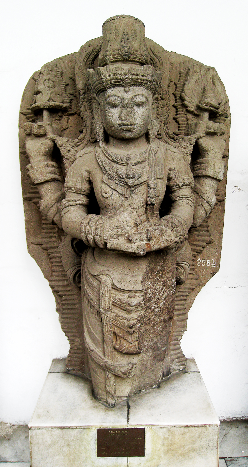 A male sculpture believed to be Vishnu, the preserver Hindu god, 12th-13th century Kediri, East Java. Collection of National Museum of Indonesia, Jakarta.